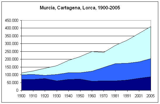 Population of the cities of Murcia (pale blue), Cartagena (middle blue) and Lorca (dark blue), region of Murcia, Spain, (1900-2005). Own work, given to PD. Source: Instituto Nacional de Estadística.